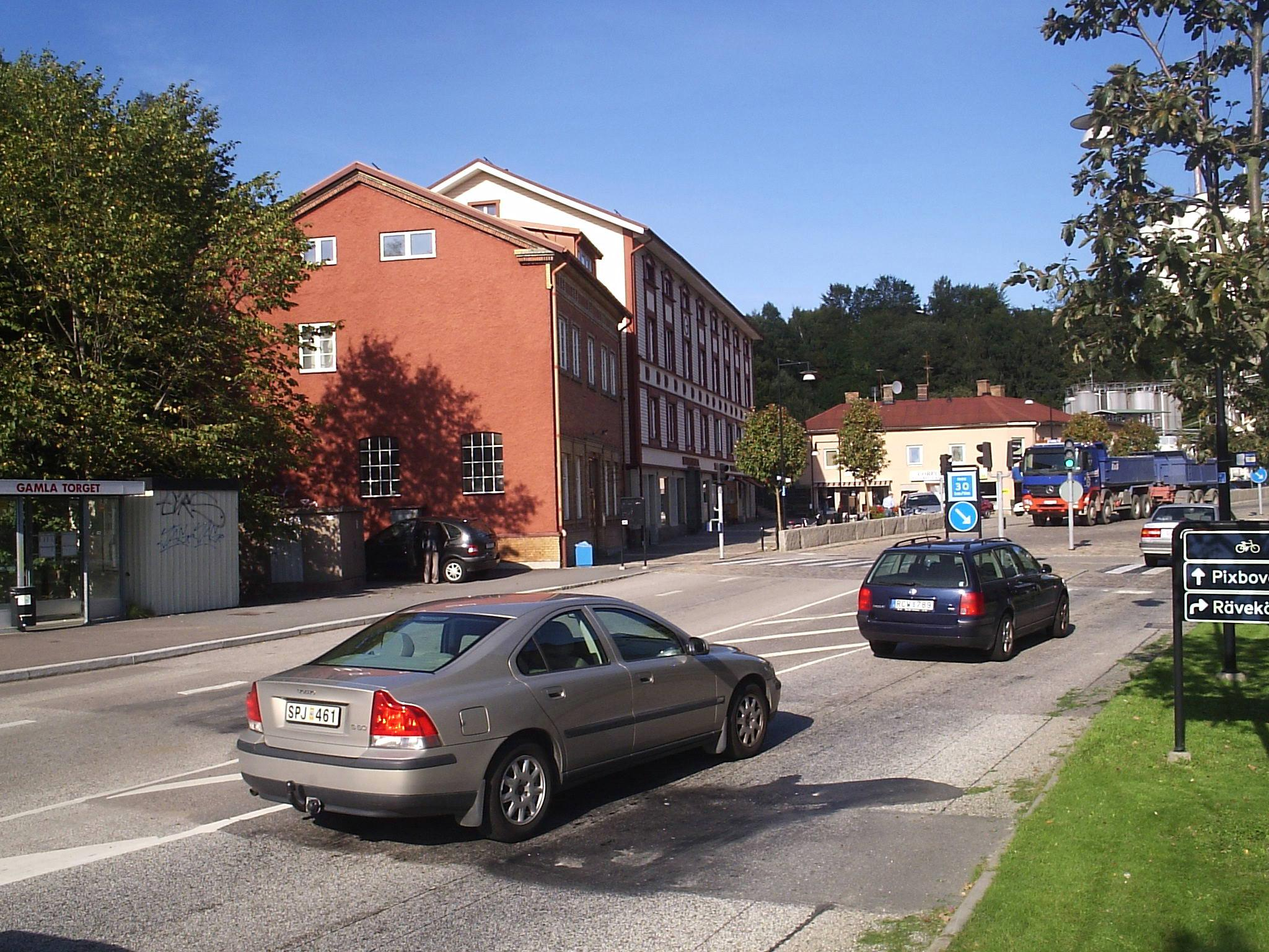 Photo by Harri Blomberg.